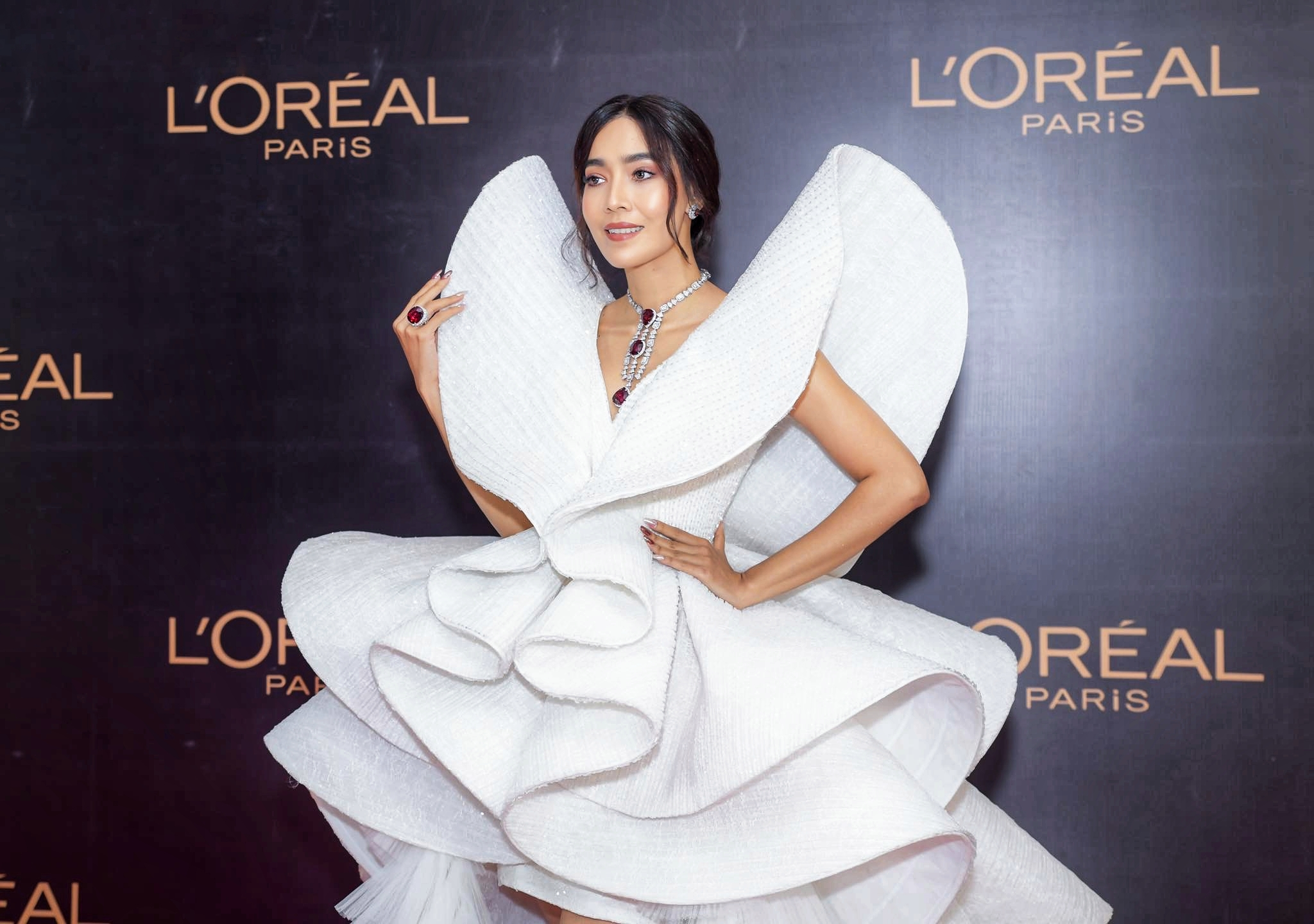 Moe Hay Ko is very famous actress in Myanmar